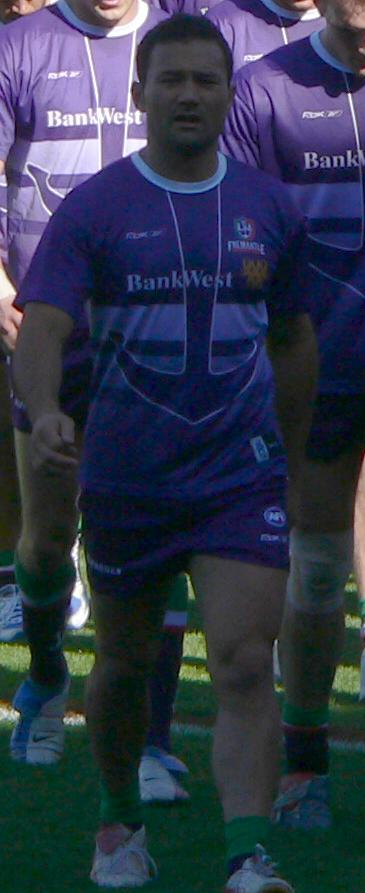 Peter Bell leading the Fremantle Football Club from the ground before a 2005 AFL game at Subiaco Oval.